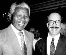 Nelson Mandela with U.S. Congressman Eliot L. Engel.